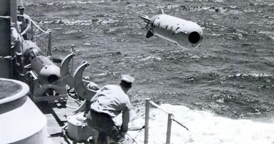 Mark 32 torpedo launched from Torpedo Launching System Mark 2.